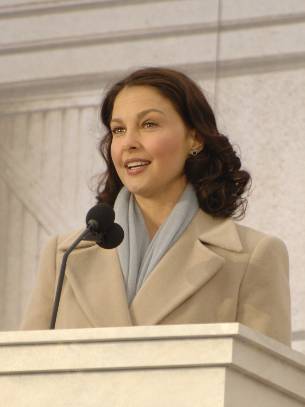 Ashley Judd at the Lincoln Memorial on the National Mall in Washington, D.C., Jan. 18, 2009, during the inaugural opening ceremonies.